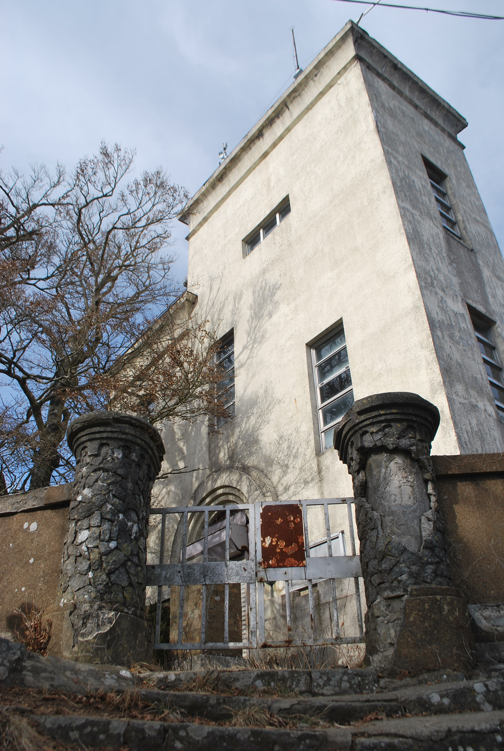 Meteorological Observation Station at the summit of Mt. Tsukuba,Tsukuba-city,Japan